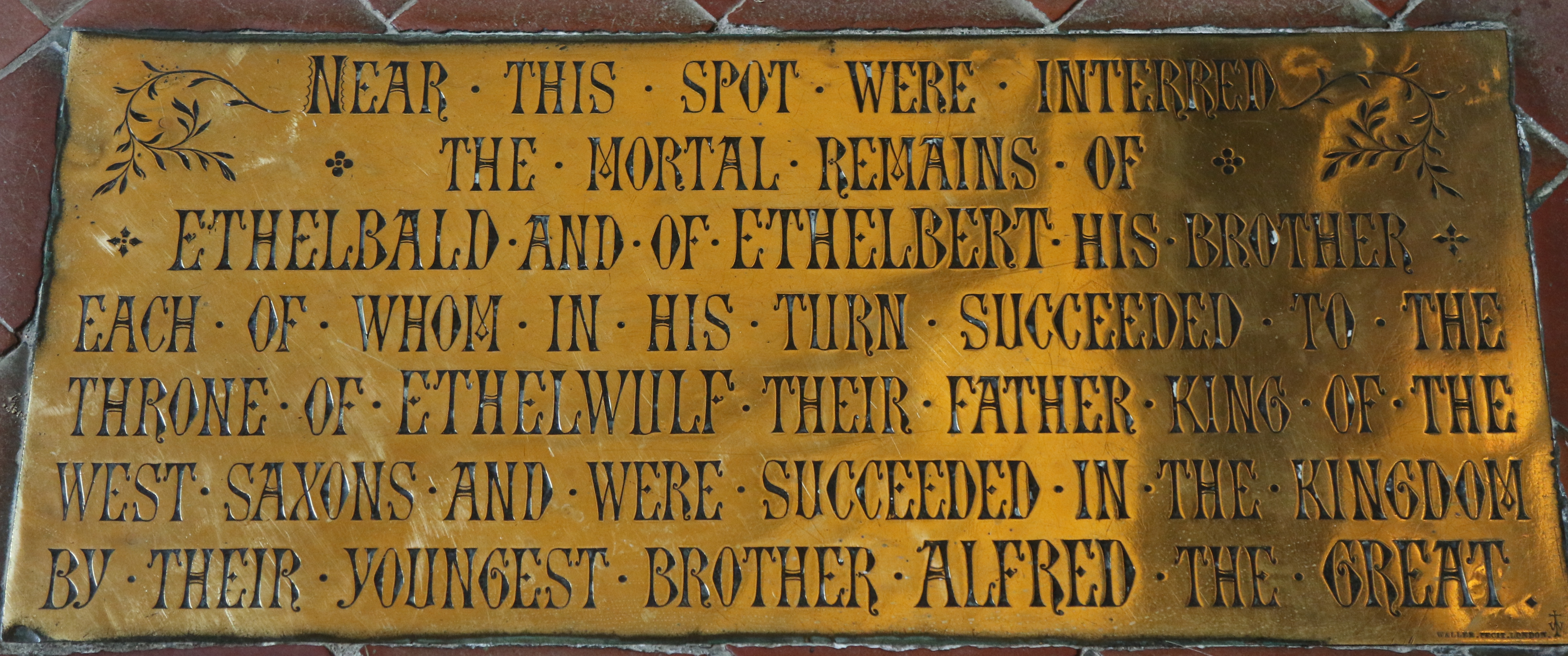 Near this spot were interred the mortal remains of Ethelbald and Ethelbert his brother, each of whom in his turn succeeded to the throne of Ethelwulf their father King of the West Saxons and were succeeded in the kingdom by their youngest brother Alfred